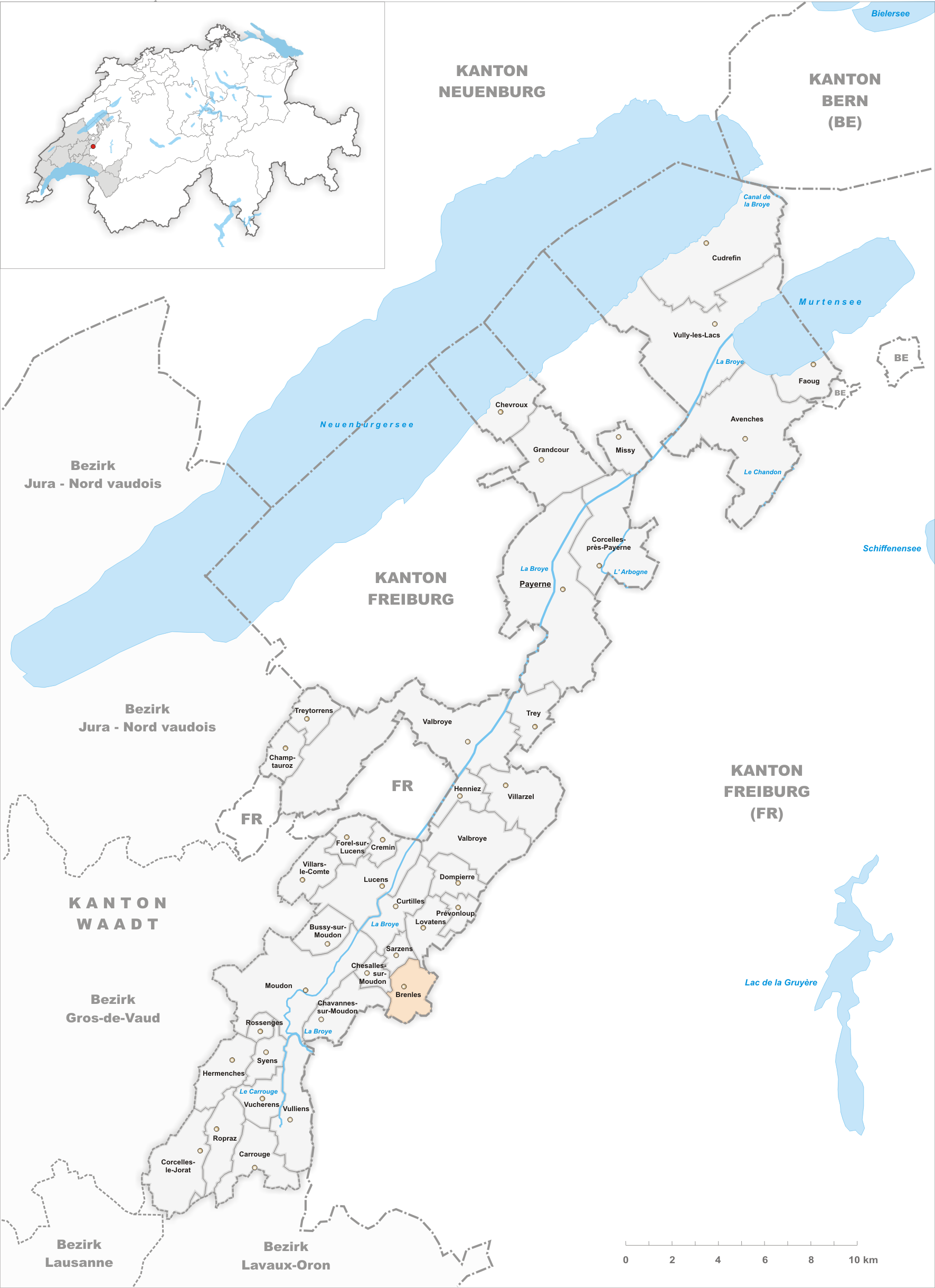 Municipality Brenles